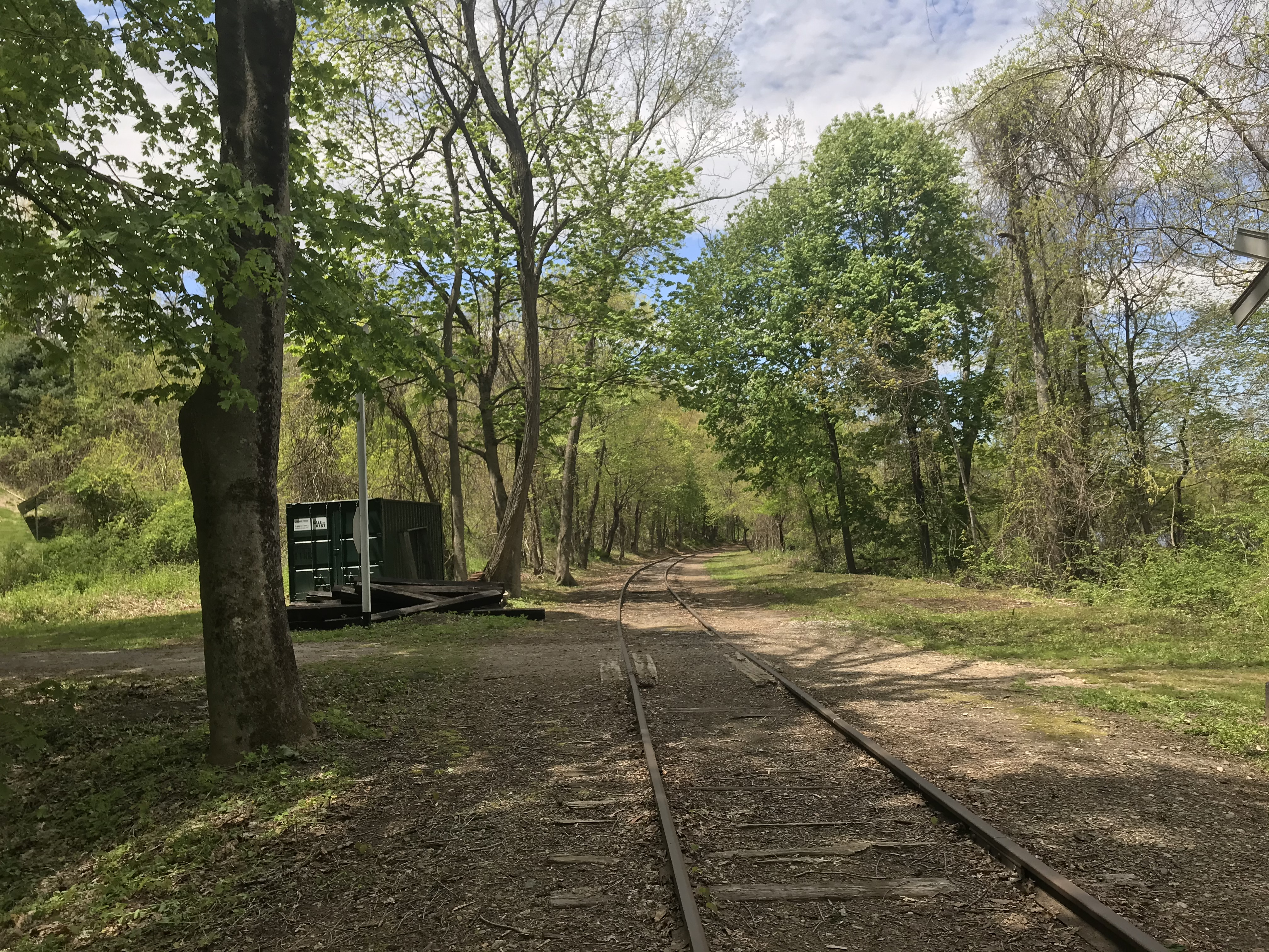 The former site of Haddam station seen in May 2020